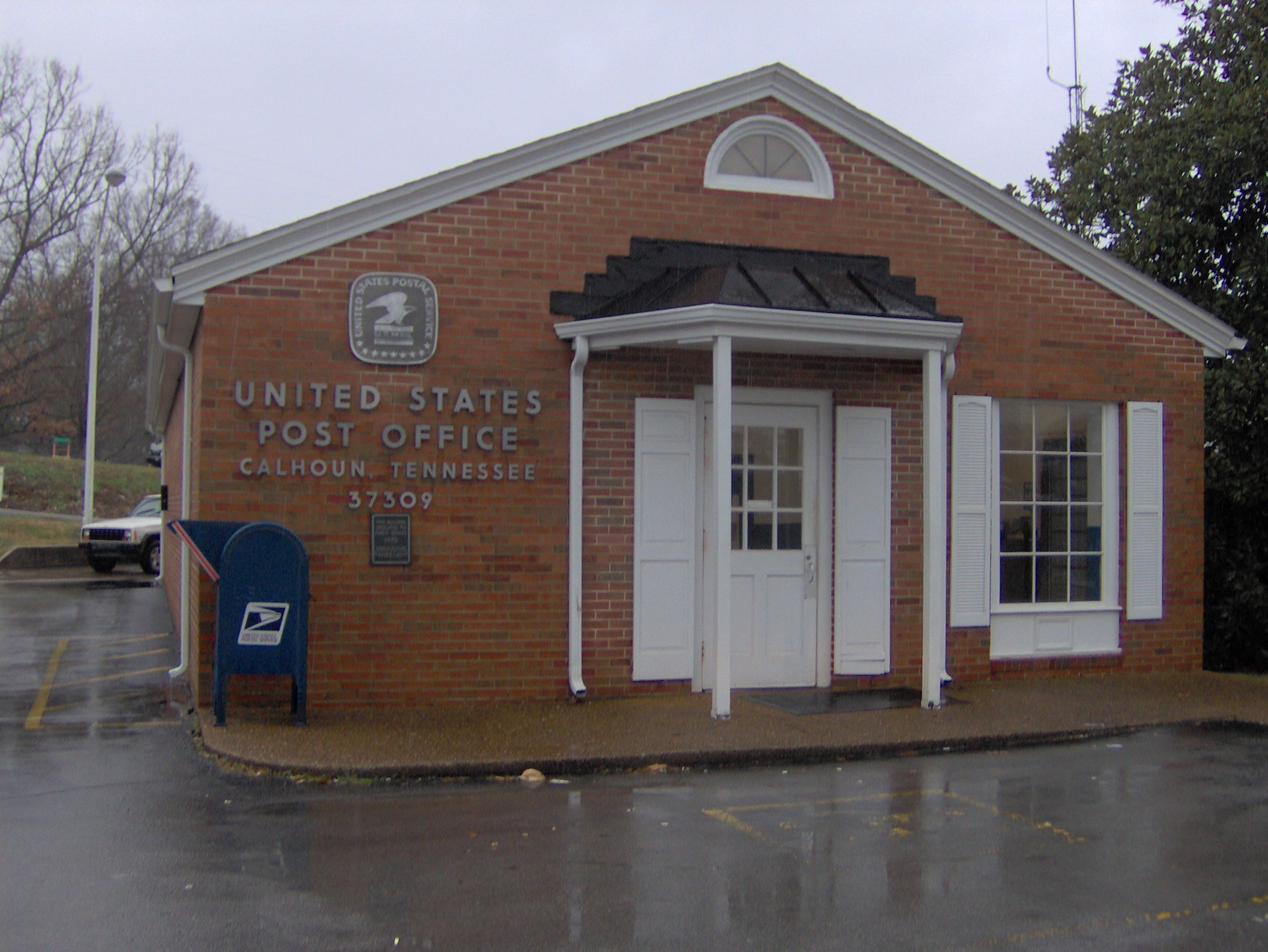 The post office in Calhoun, Tennessee, located in the Southeastern United States.